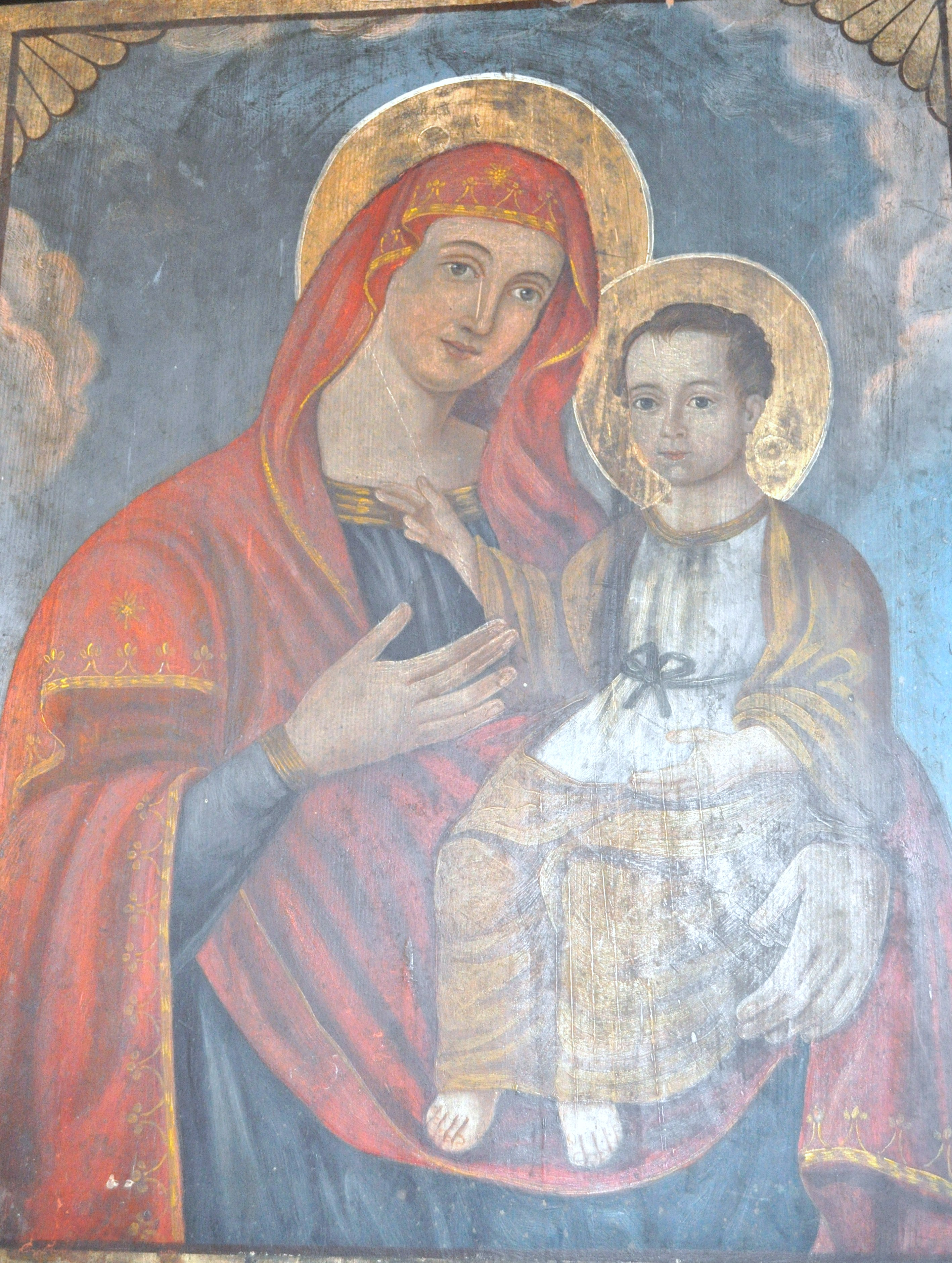 Old icon that belonged to the wooden church in Muncel, Cluj county, Romania